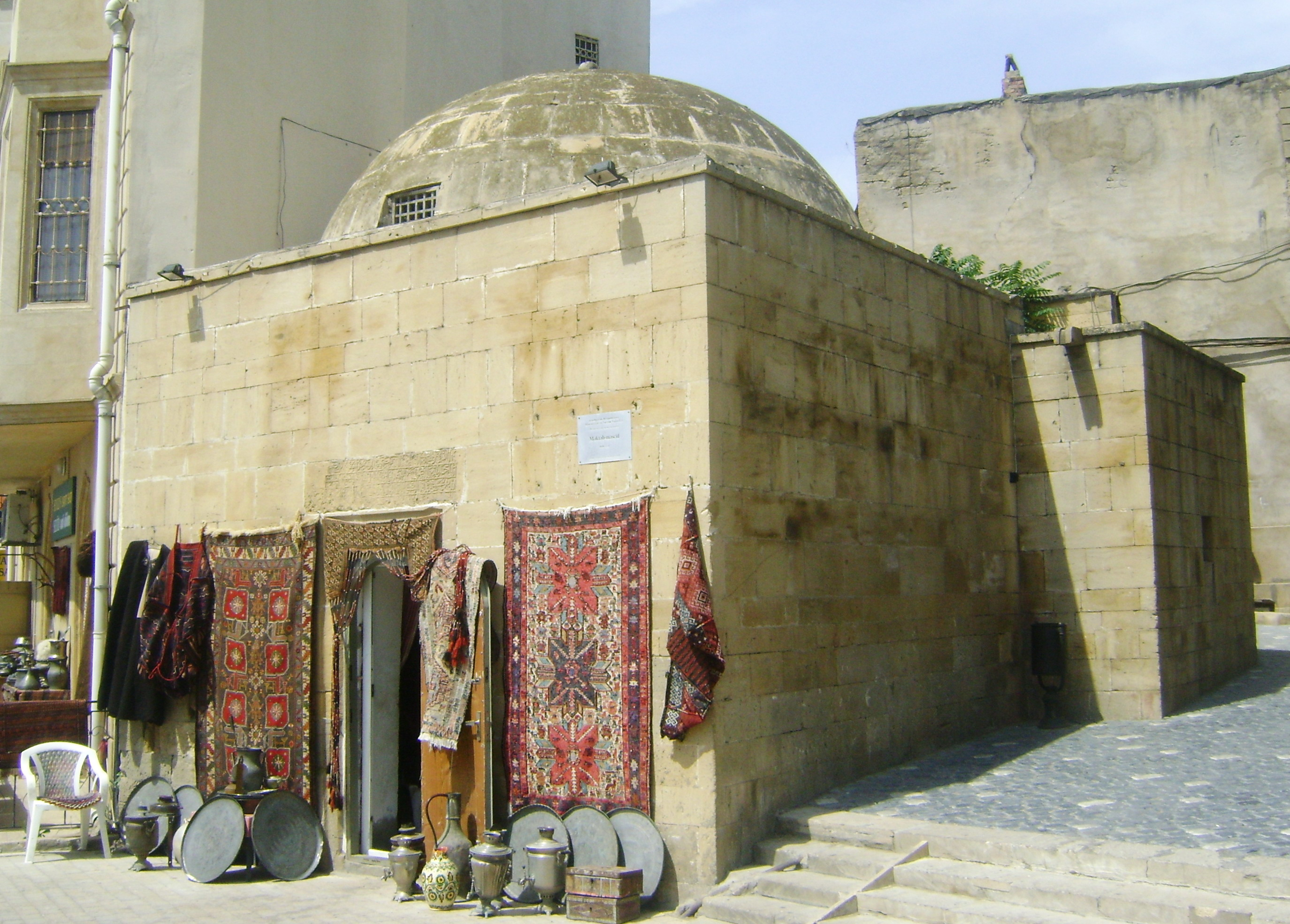 medrese(school-mosque)-Old_City_Baku_Azerbaijan_1646